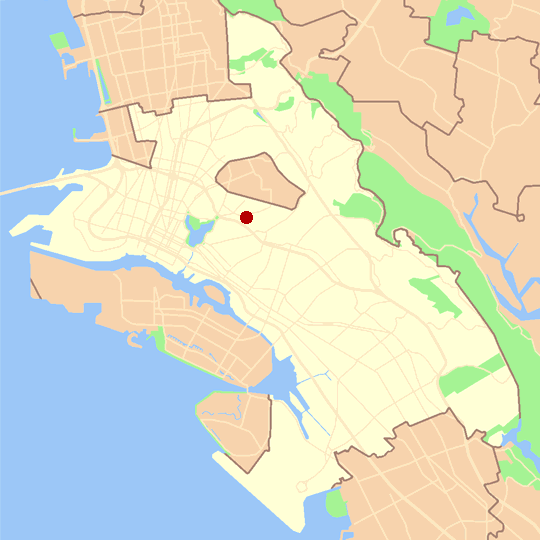 Map showing the location of Trestle Glen in the city of Oakland, California. Created by User:Nogood using U.S. Census Bureau data.